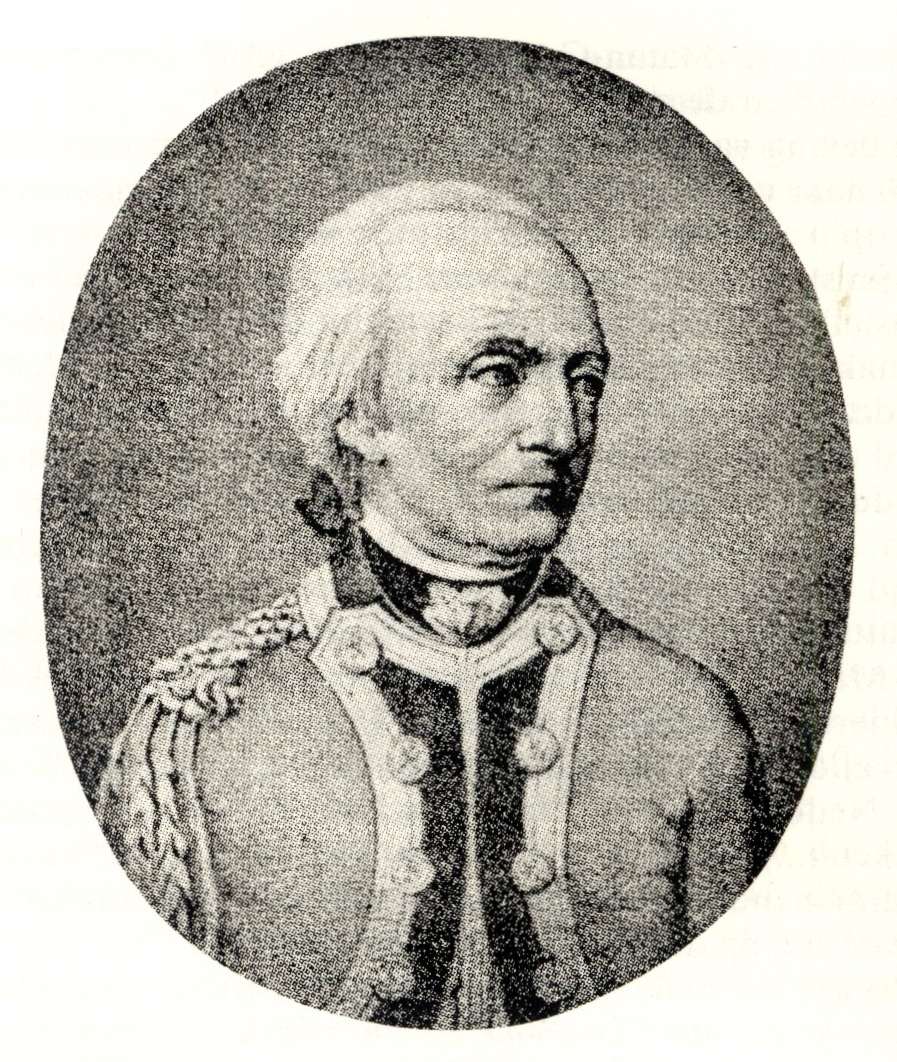 Portrait of Carel Diederik du Moulin (1727-1793), director-general of fortifications in the Netherlands. Artist unknown.